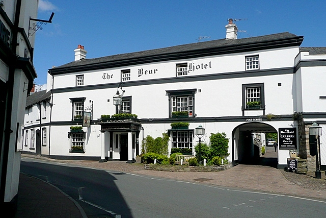 The Bear Hotel The main coaching inn in Crickhowell, right on the A40 turnpike. The archway would have led to the stables, and a sign above it says Post Horses. I wonder if the sign was there when horses were changed here? Surely people knew where to find things, without having all the signs that we seem to need today. I suspect it is a modern addition, to tell people, "by the way folks in case it escapes your attention completely this is where you would have gone to get your horses".